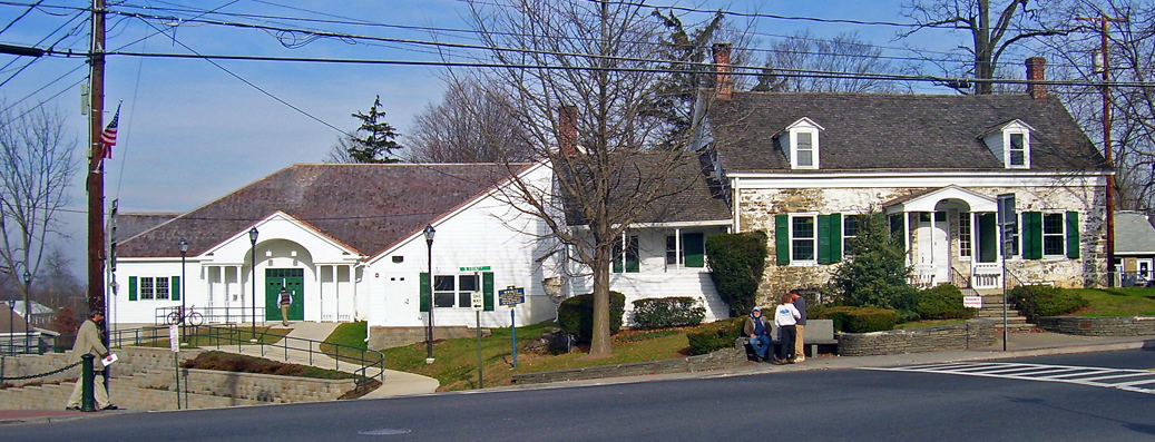 Photographed by Daniel Case 2006-11-27